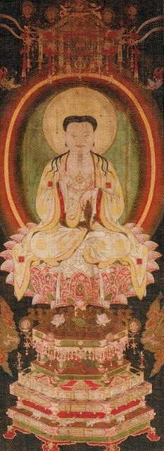 Icon of Mani depicted on a hanging scroll, southern China, 14th/15th century. Discovered in 2019 by the professor Yutaka Yoshida in the Fujita Art Museum, Osaka, Japan.